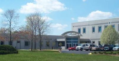 Exterior of the commercial facility housing the Department of Defense Serum Repository, located at 11800 Tech Road, Silver Spring, Maryland